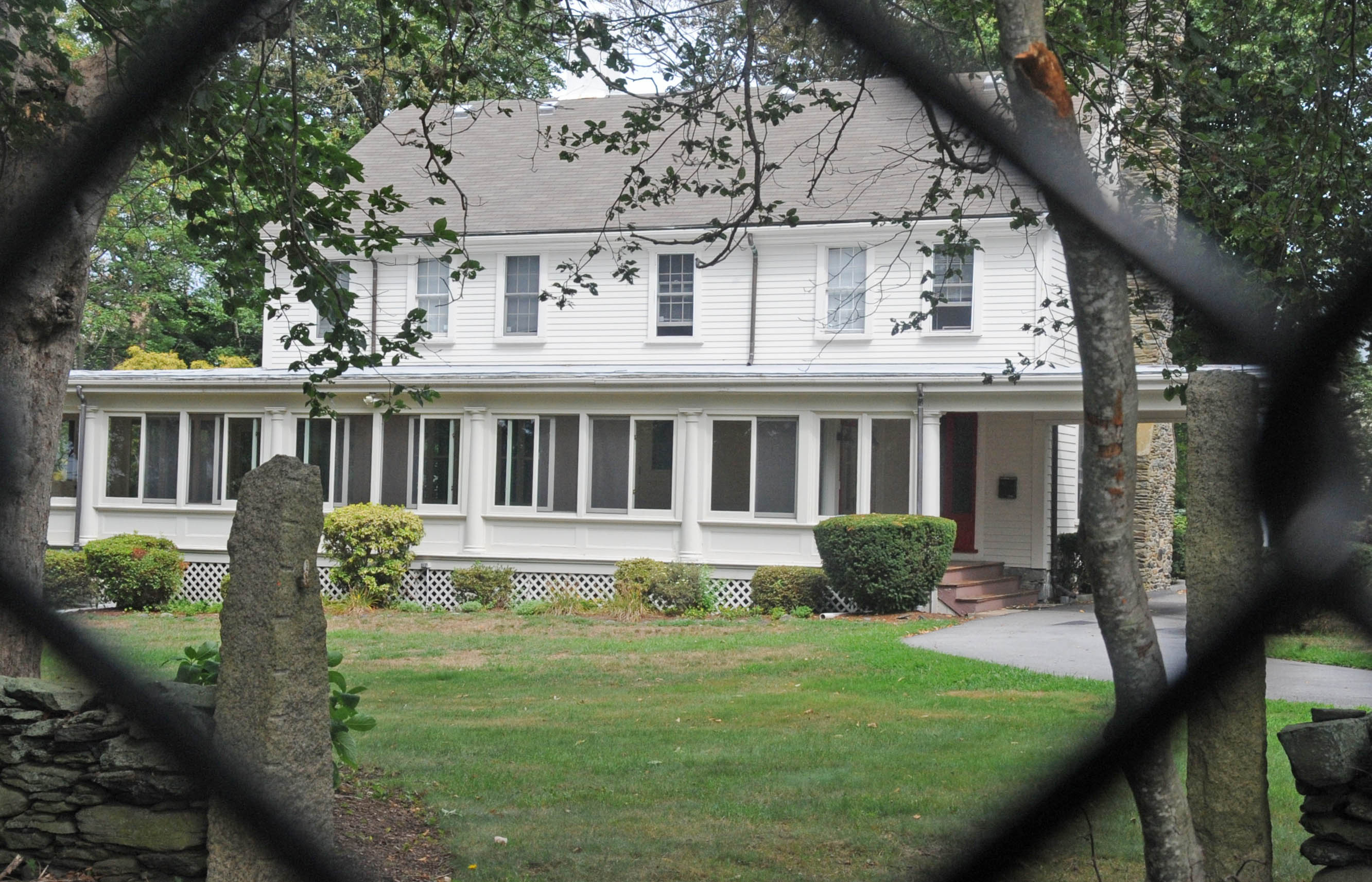 BUILT 2ND HALF OF 18TH CENTURY AND ALTERED IN 1850.ACQUIRED BY THE U.S. NAVY IN 1941 AS QUARTERS FOR NAVAL EDUCATION AND TRAINING CENTER IN NEWPORT.